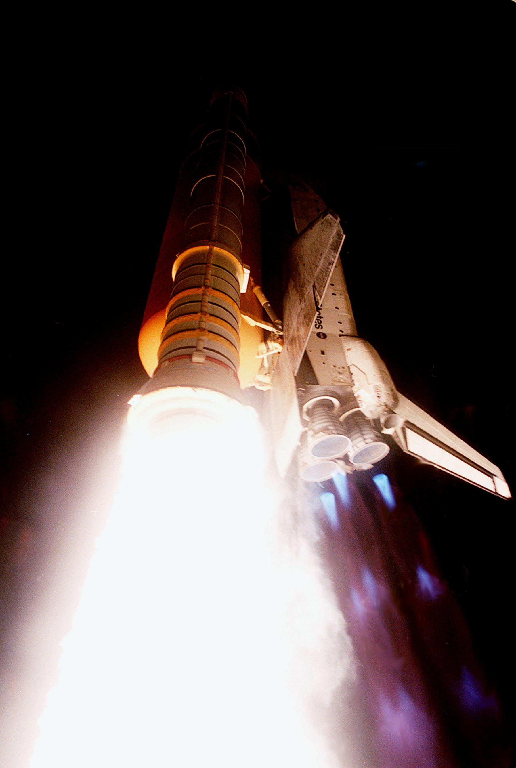 The brilliant exhaust from the solid rocket boosters (left) and blue mach diamonds from the main engine nozzles (right) mark the perfect launch of Space Shuttle Atlantis on mission STS-101. Liftoff occurred on time at 6:11:10 a.m. EDT. The mission is taking the crew of seven to the International Space Station to deliver logistics and supplies as well as to prepare the Station for the arrival of the Zvezda Service Module, expected to be launched by Russia in July 2000. Also, the crew will conduct one space walk and will reboost the space station from 230 statute miles to 250 statute miles. This will be the third assembly flight to the Space Station. After a 10-day mission, landing is targeted for May 29 at 2:19 a.m. EDT. This is the 98th Shuttle flight and the 21st flight for Shuttle Atlantis.